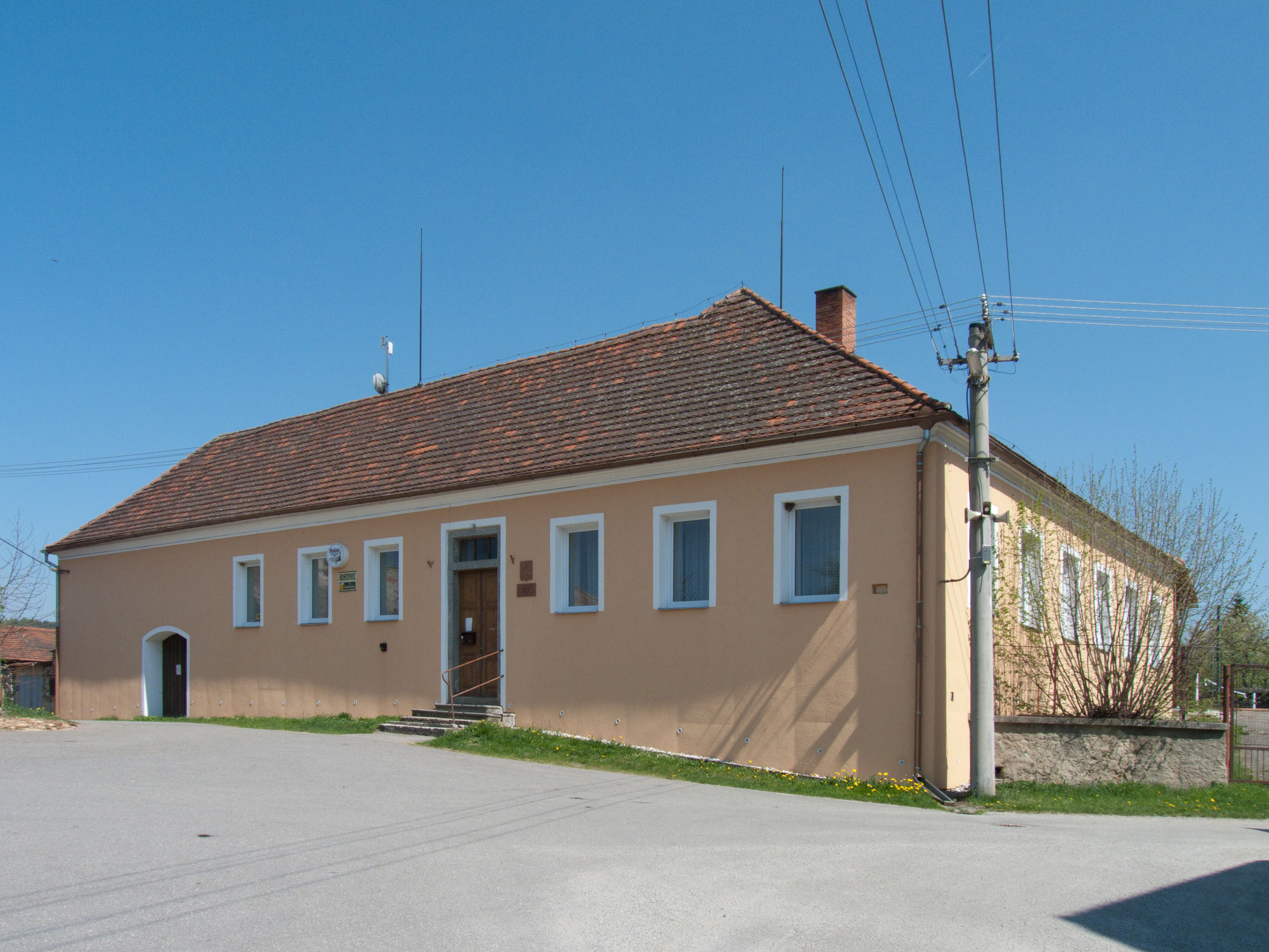 Municipal office, house No 26, in the village of Strunkovice nad Volyňkou, Strakonice District, Czech Republic also housing the village pub.